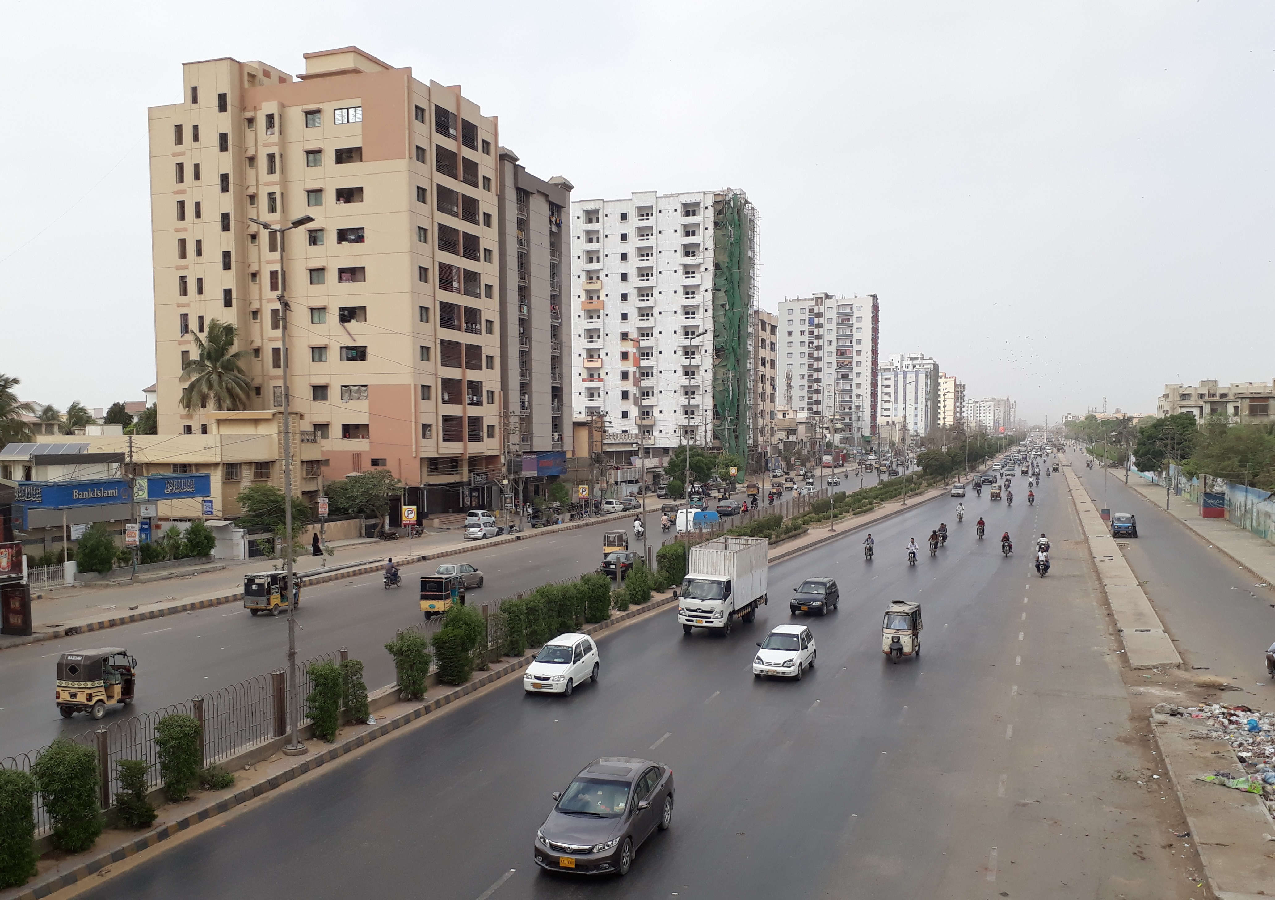 This is a shot of Shahrah e Pakistan which is a busy signal free corridor in Karachi, Pakistan.